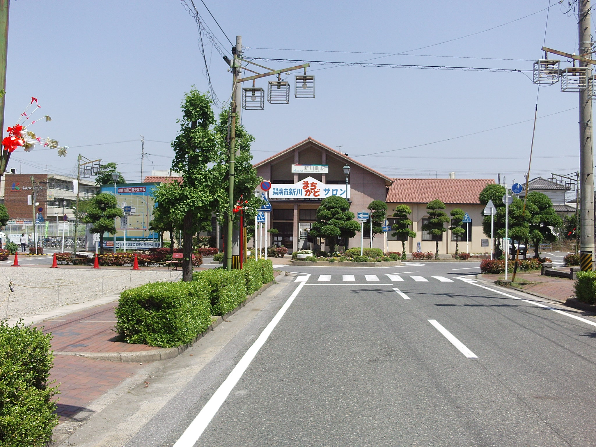 Aichi prefectural road No.302 in Shinkawamachi 3-chome, Hekinan, Aichi.